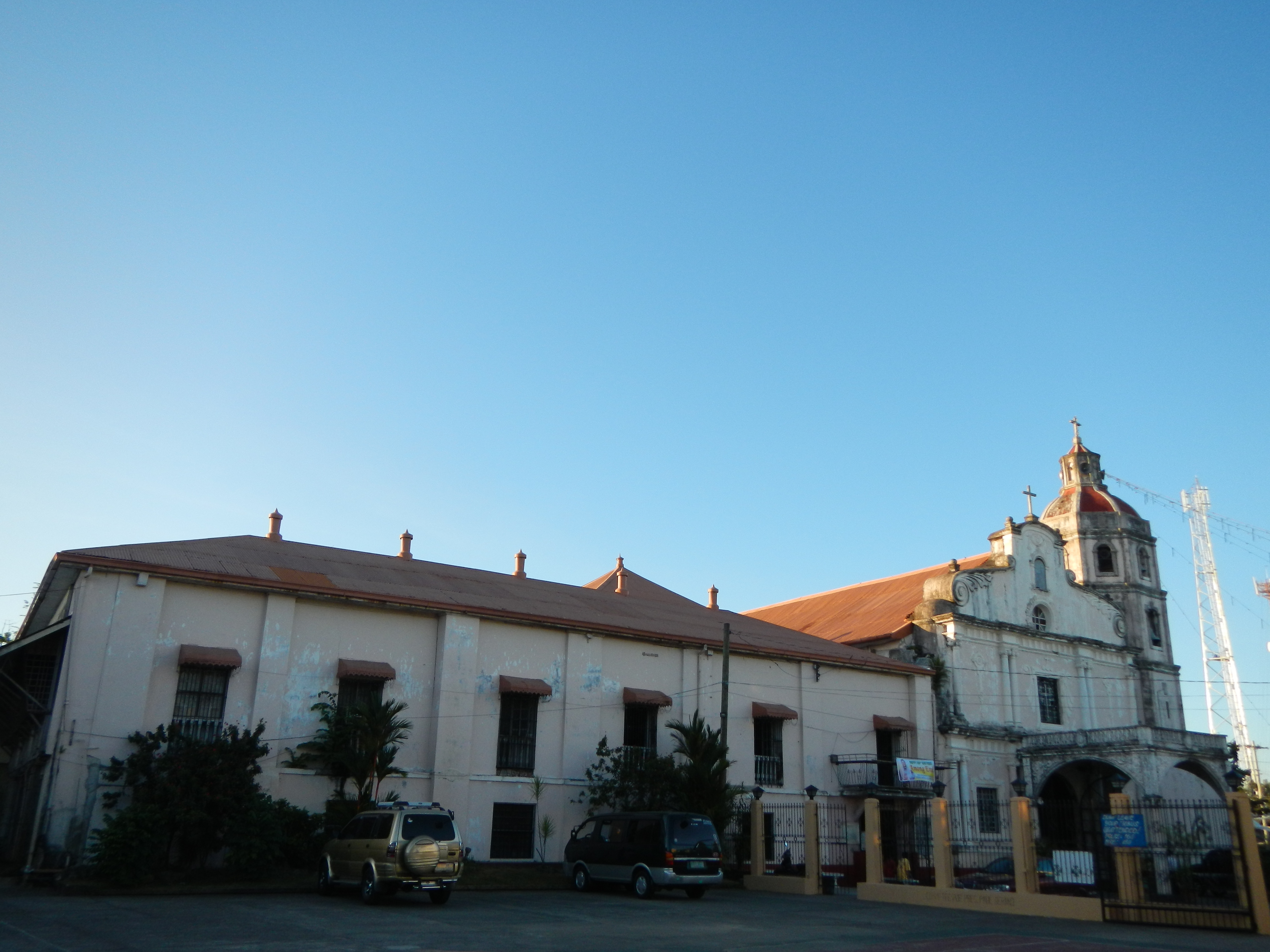 [1]Betis Church[2]